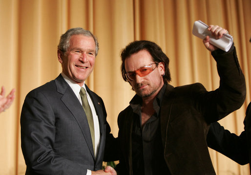 President George W. Bush shakes hands with Bono after the musician spoke Thursday morning, Feb. 2, 2006, during the National Prayer Breakfast. President Bush called the rock star a "doer" and a "good citizen of the world." White House photo by Paul Morse